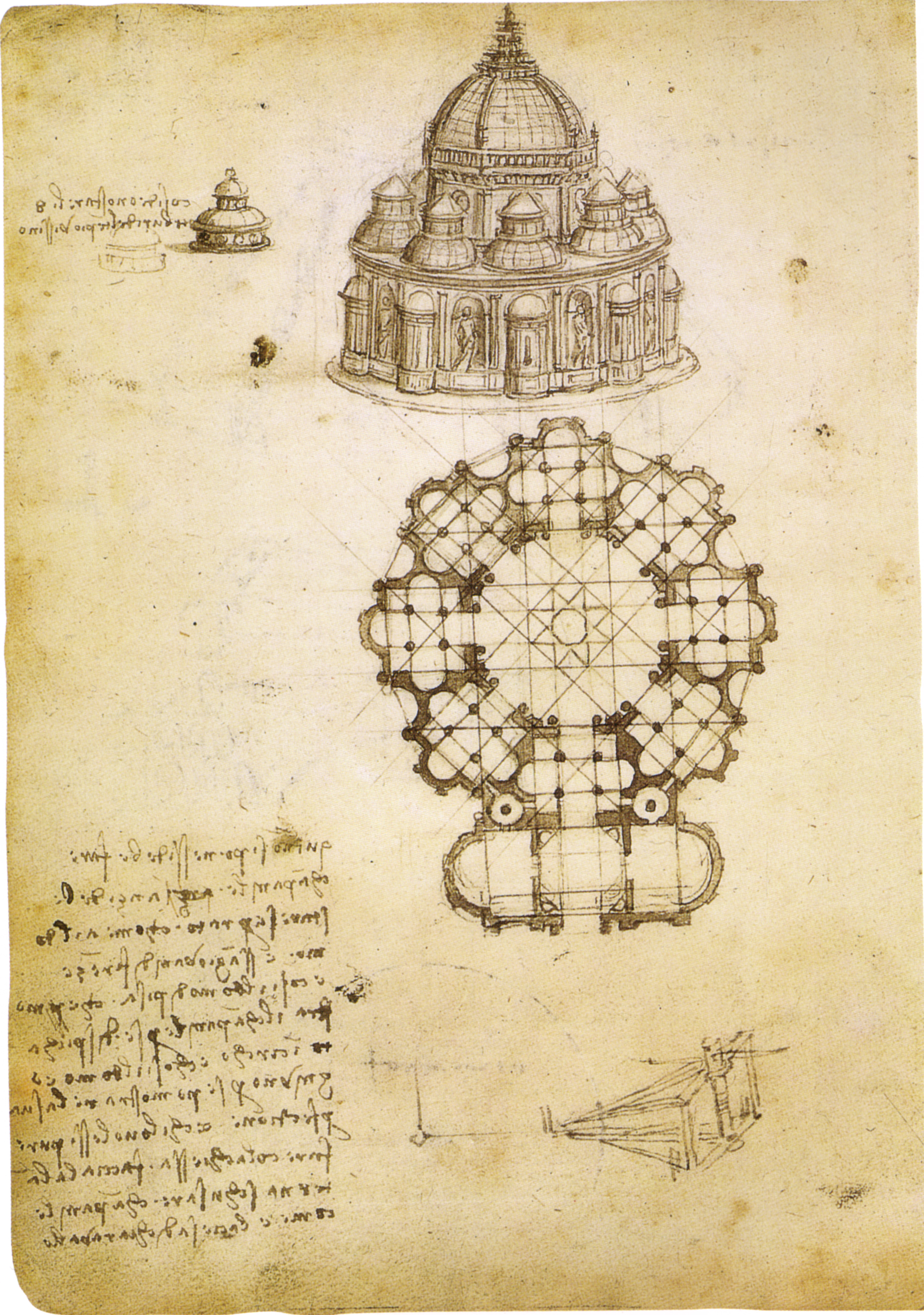 A page from Paris Manuscript B. Pen and ink on paper, 23 x 16 cm, located in the Bibliothèque de l’Institut de France (Details from